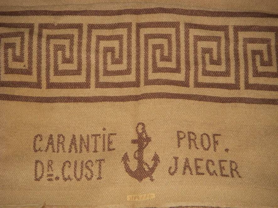 Photo of a blanket with anchor logo and text "Garantie Prof. Dr. Gust Jaeger" author: Soutter source: Soutter